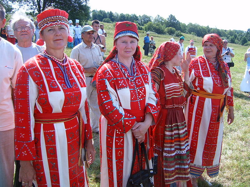 Erzya women from Penza Oblast dressed on their traditional clothes.